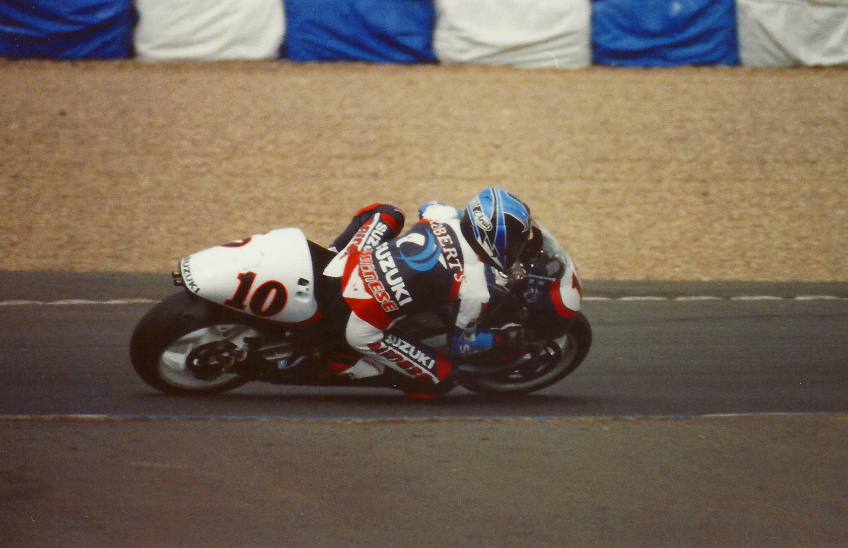 Kenny Roberts Jr., riding his Factory Suzuki at the 1999 British Grand Prix.